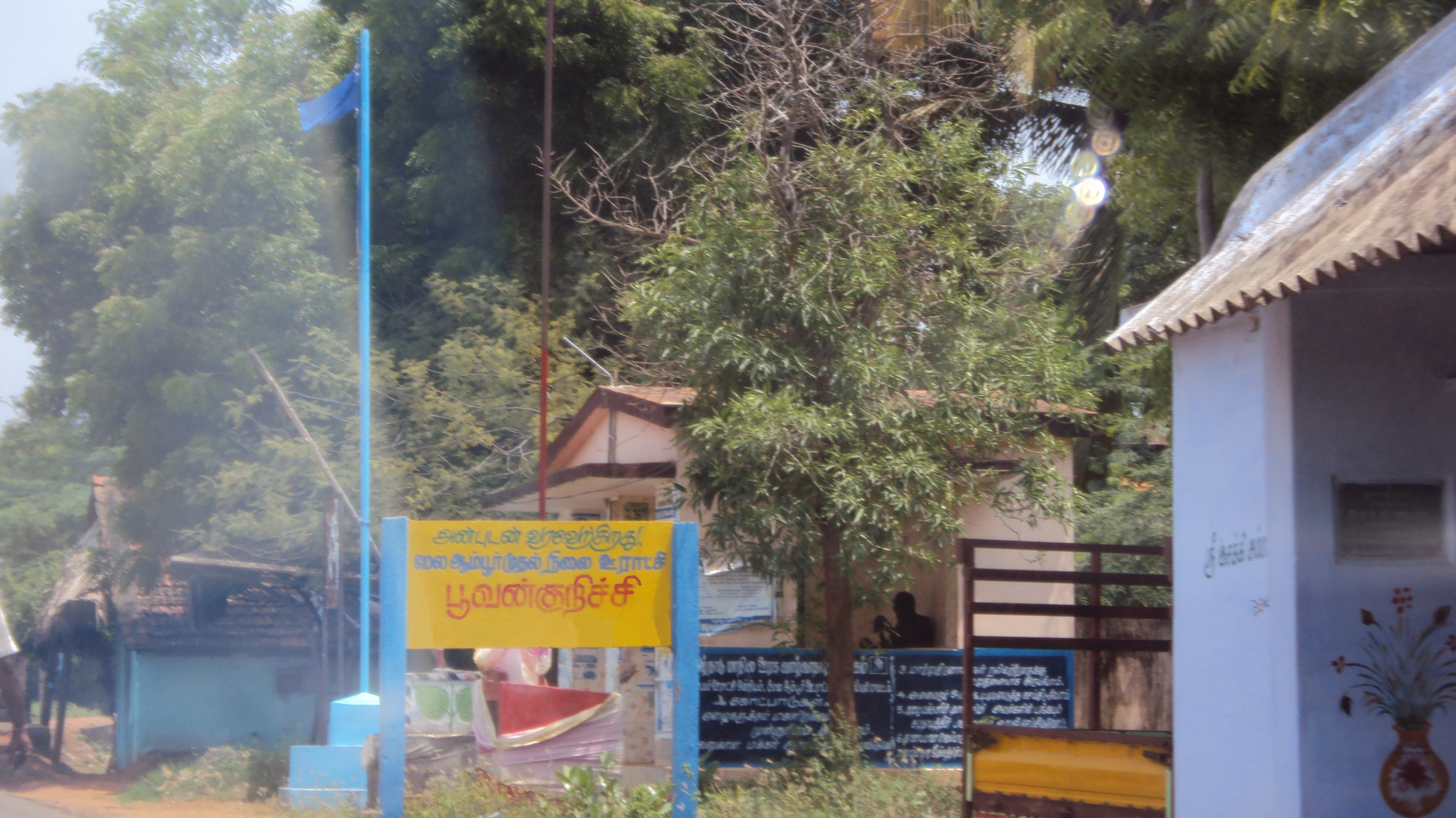 Poovan kurichi identification board